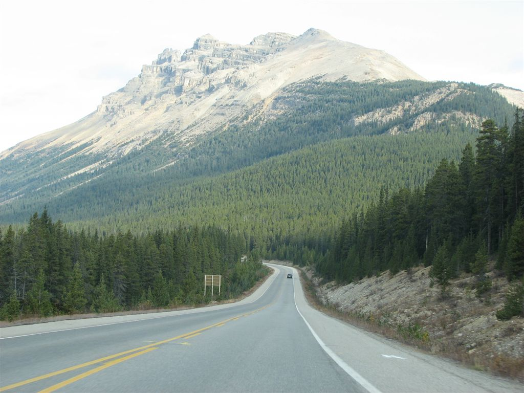 Icefields Parkway